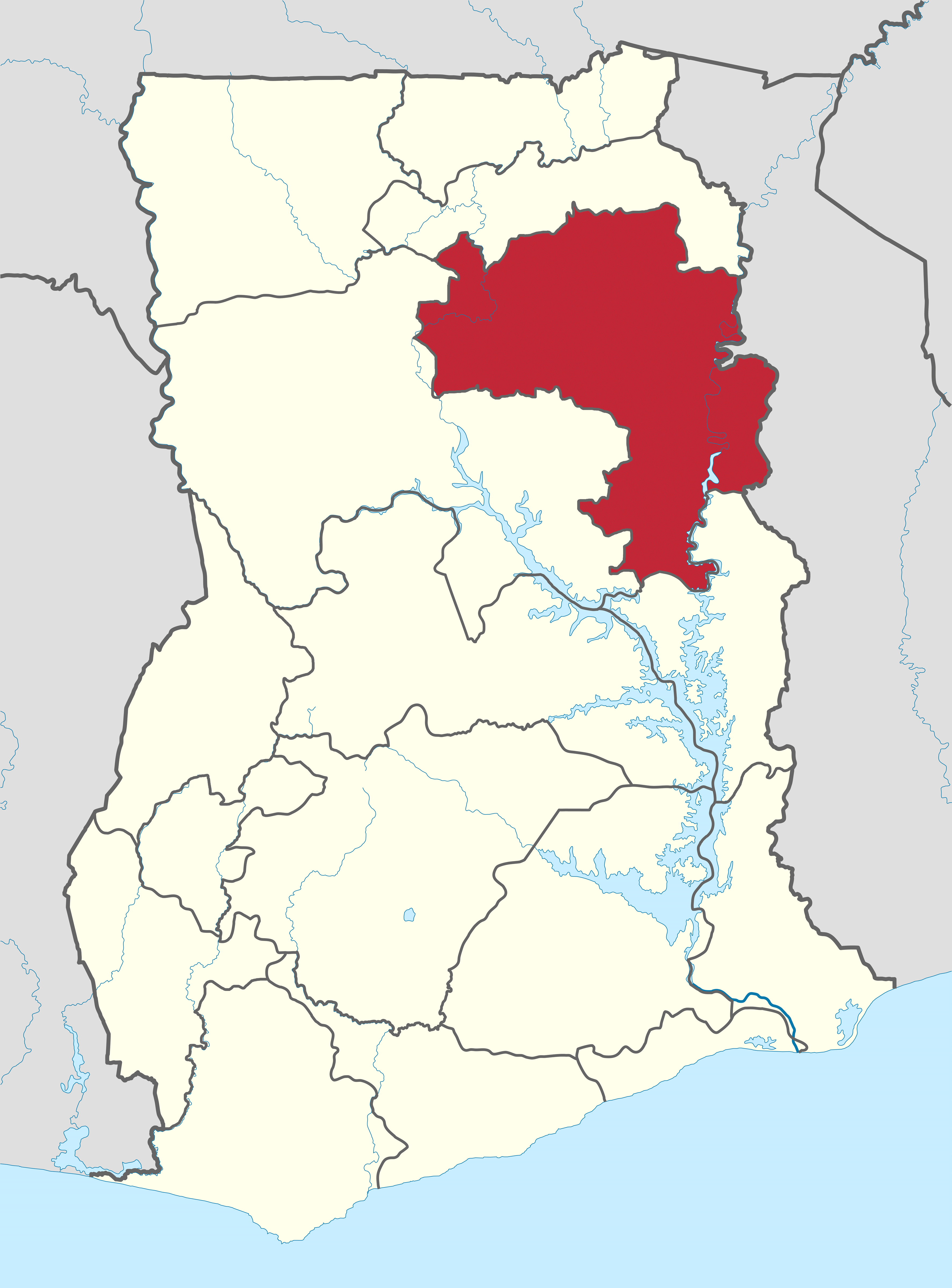 Updated political map of Ghana's Northern Region after Dec 2018 referendum